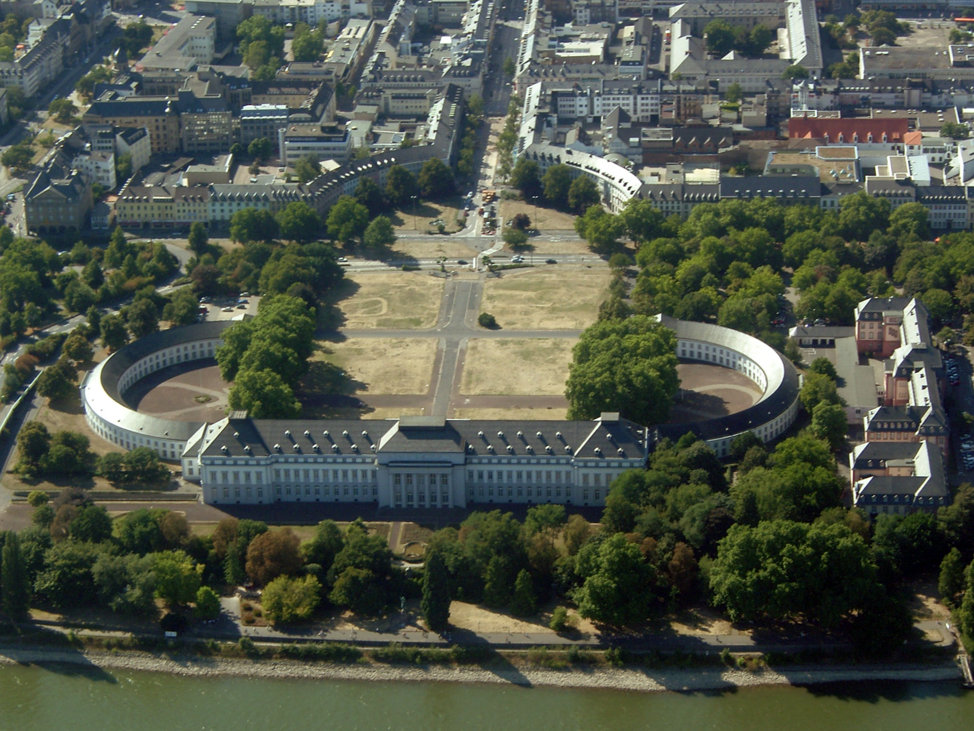 Aerial view of Kurfürstliches Schloss in Koblenz